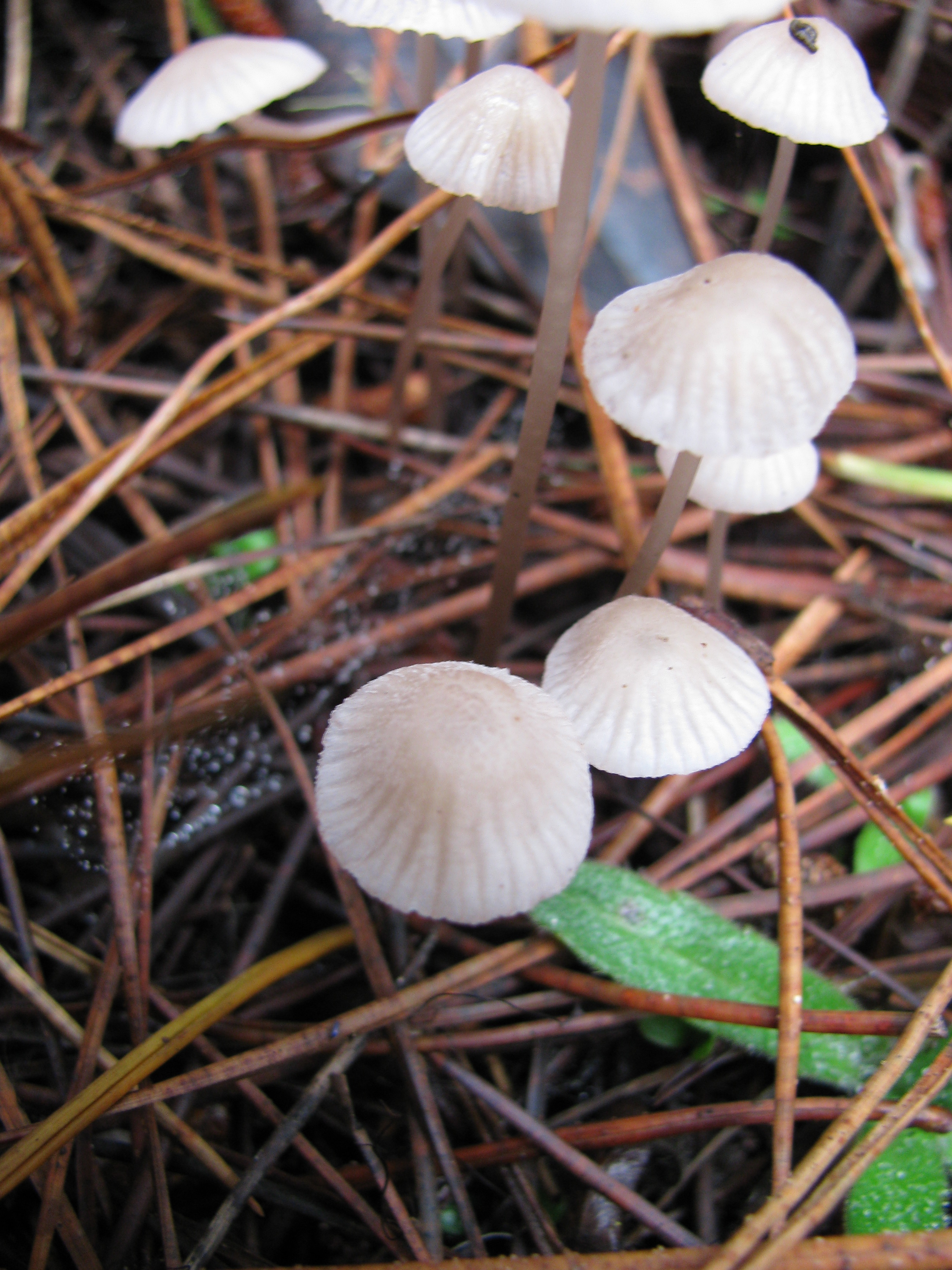 Fruit bodies of the fungus Mycena leptocephala (Pers.) Gillet. Specimens photographed in Caspar, California, USA.